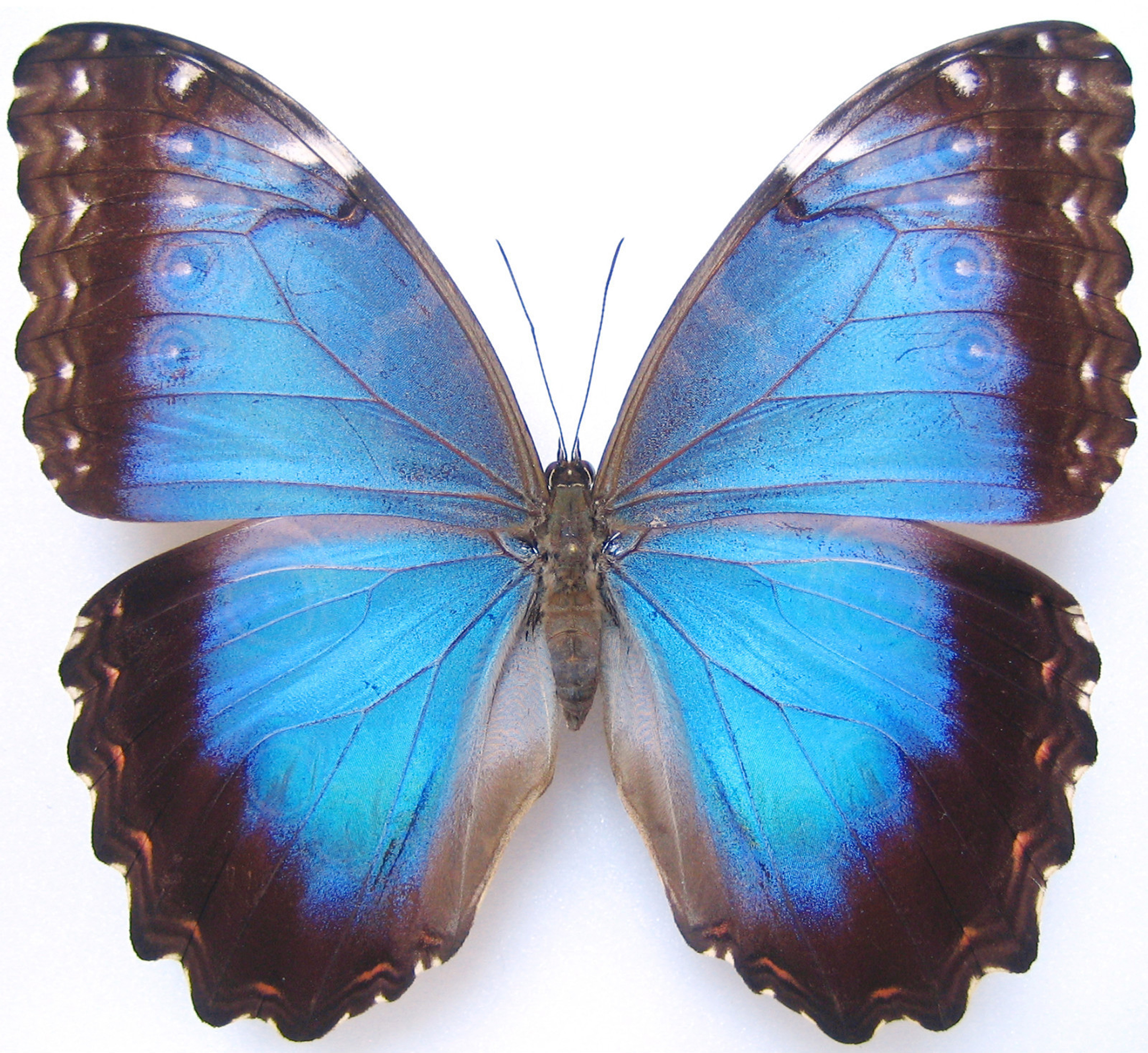 Morpho peleides from Sierra de Huauchinango, Puebla, 400m asl, Neotropical Mexico.